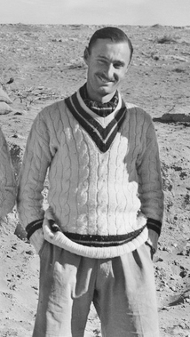 Cropped image of Flight Lieutenant (later Air Commodore) Gordon Henry Steege of North Sydney, New South Wales.